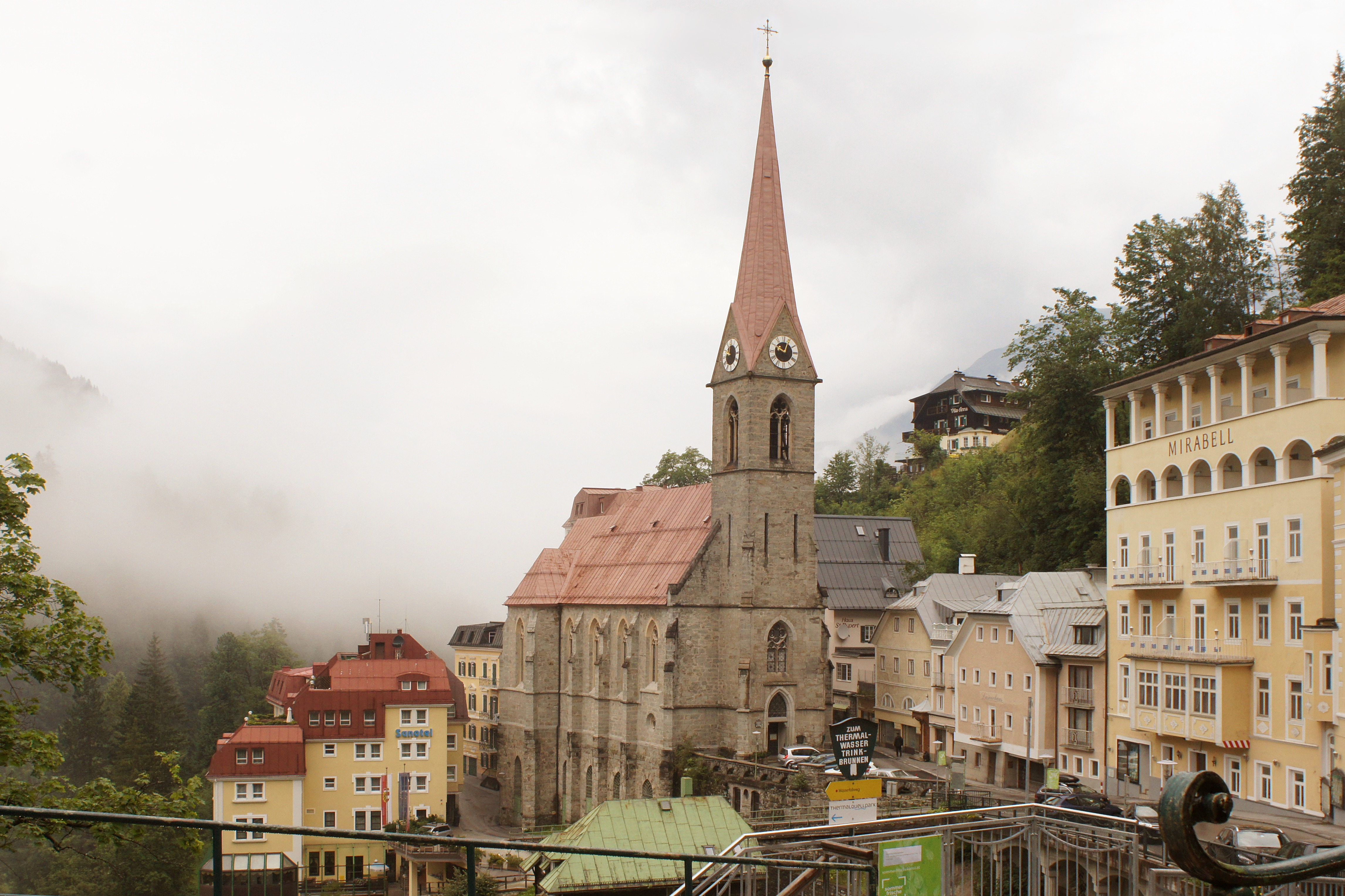 Kath. Pfarrkirche, hll. Primus und Felizian/Preimskirche in Bad Gastein, Salzburg, Austria